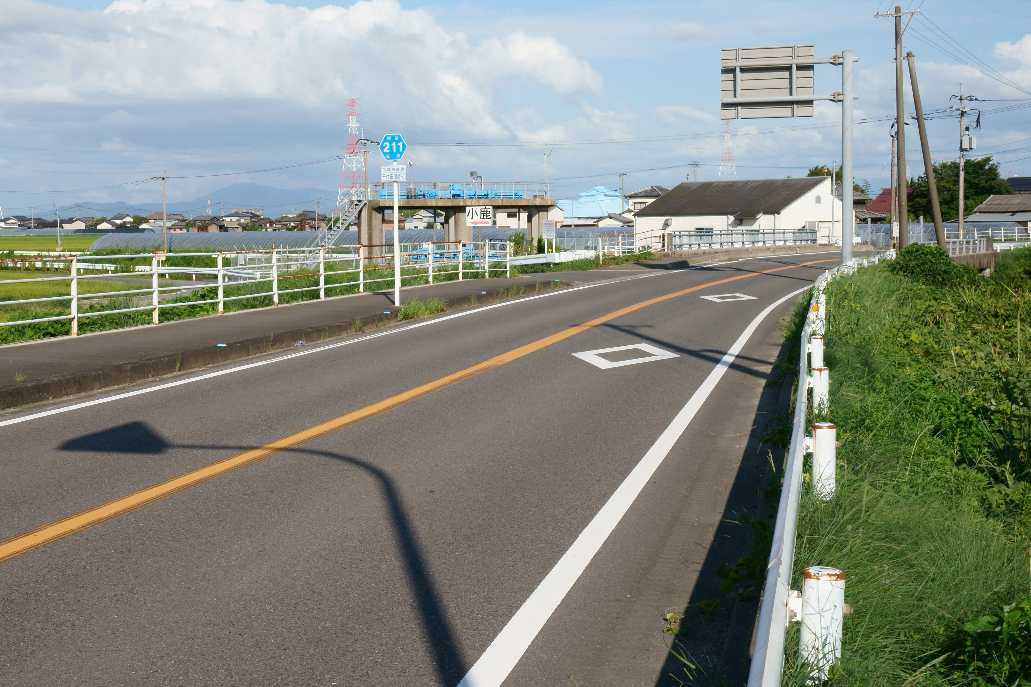 Saga Prefectural Road No.211 in Chiyoda-cho Sakimura, Kanzaki city, Saga prefecture.